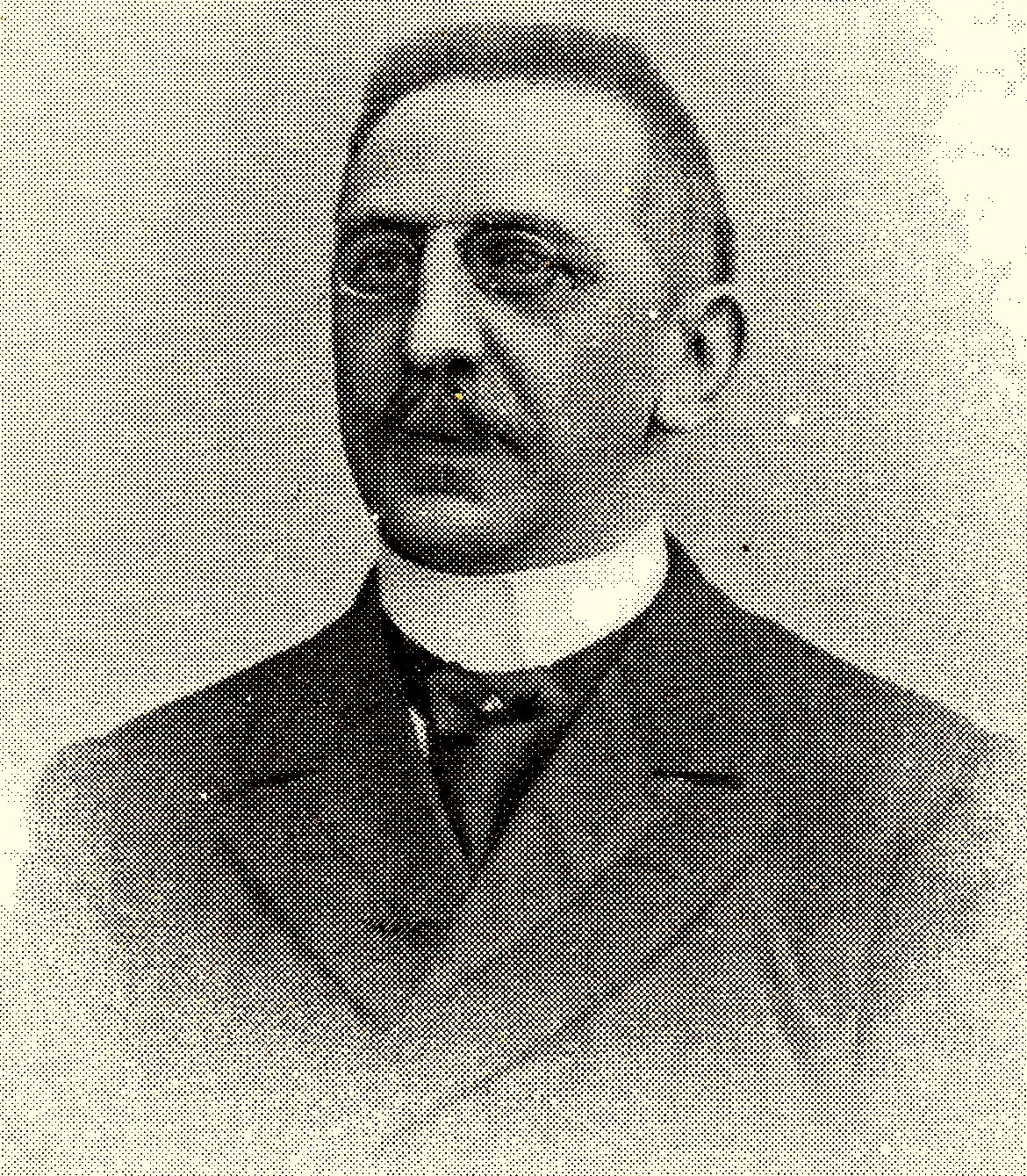 Mr. A.P.L. Nelissen